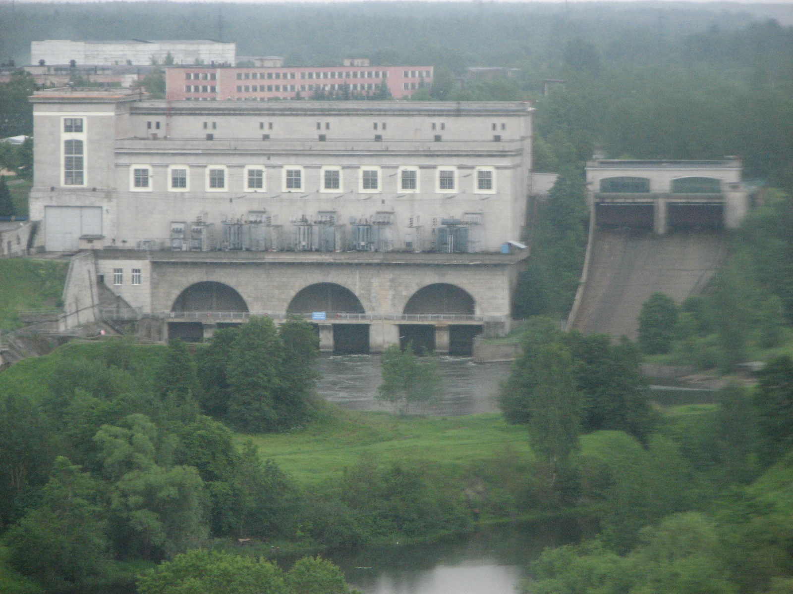 Hydroelectricity of Narva, Estonia